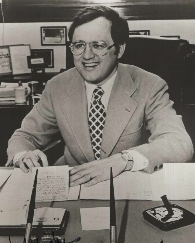 Senator Donald W. Stewart from Alabama. The source of this file is the United States Senate Historical Office. I got permission (to post this photo on Wikipedia) over the phone, in person, from Ms. Heather Moore, the United States Senate Photo Historian. Ms. Moore can be reached at 202-224-6900. The url contact page for Ms. Moore is Ms. Moore said that the photo is in the public domain, but that credit for the photo does need to be posted as "credited to the U.S. Senate Historical Office." The URL where this photo was retrieved from is